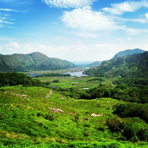 Ladies View in Killarney on a summer day